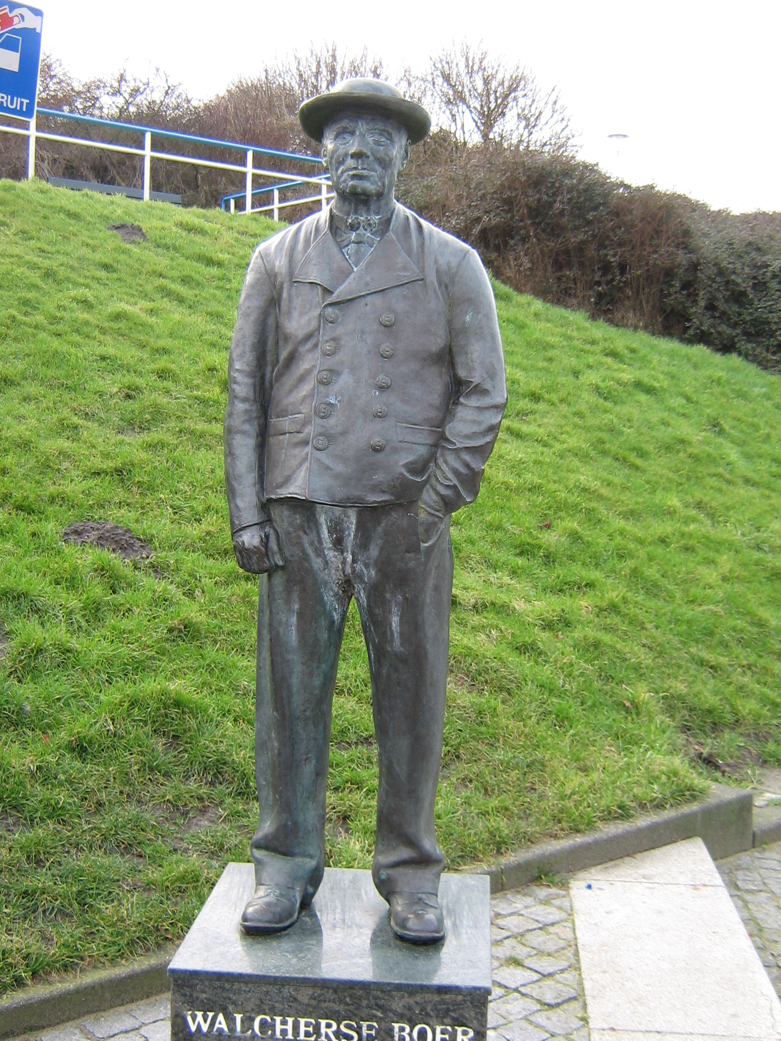 Zoutelande, statue of farmer in traditional Walcheren garment. Made by Antoon Luyckx and placed on December 20th 1996.